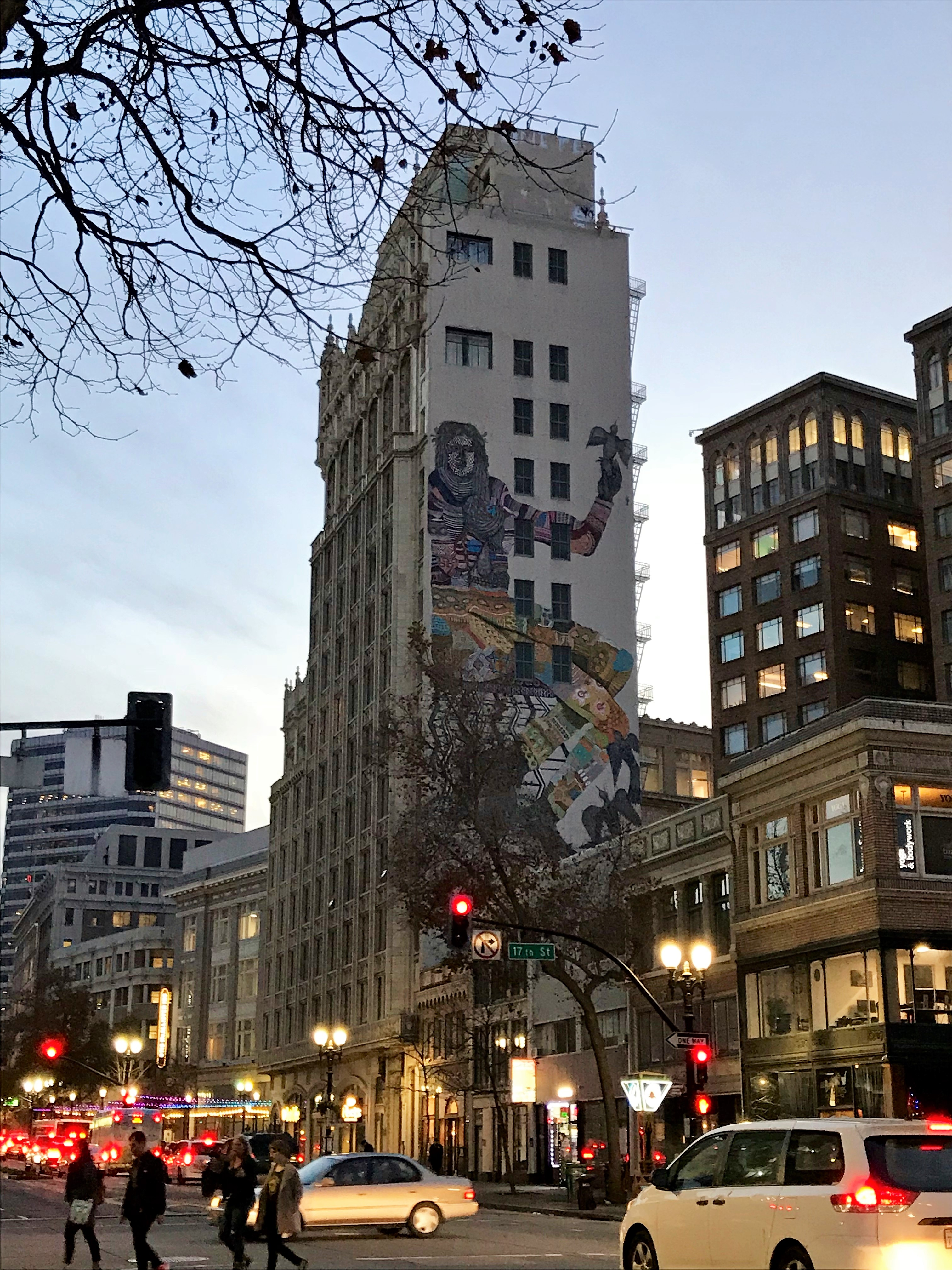 Zio Ziegler's mural on Oakland's Cathedral Building for the United Nations’ 70th anniversary celebration.